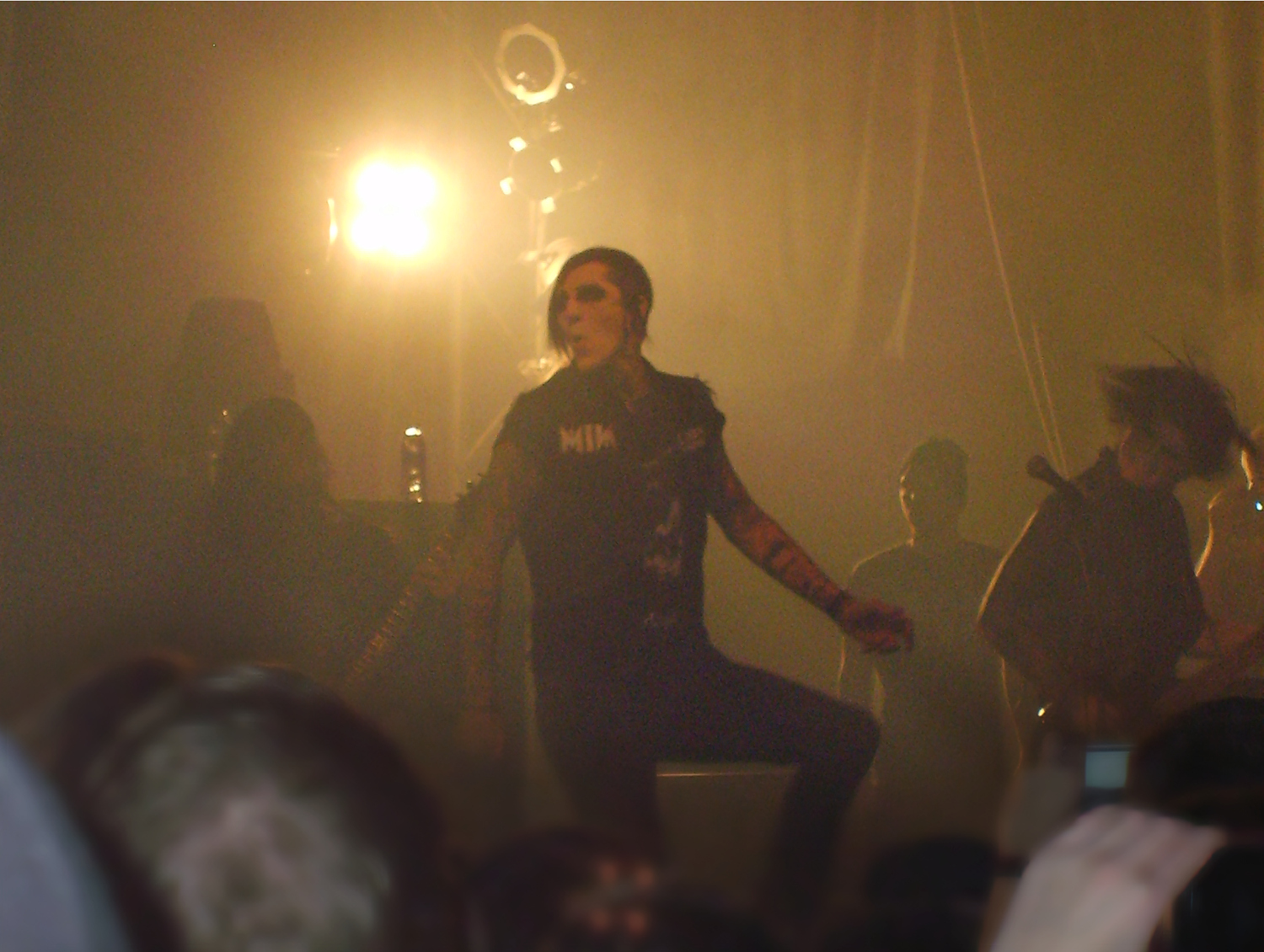 Chris Motionless performing live at Essigfabrik in Cologne on the Asking Alexandira European tour 2013